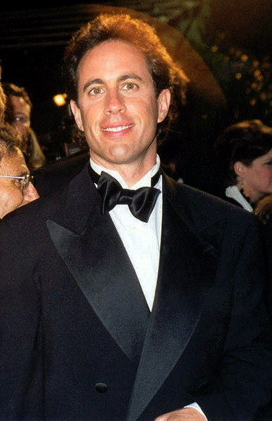 Photo of jerry Seinfeld at the Emmy Awards.